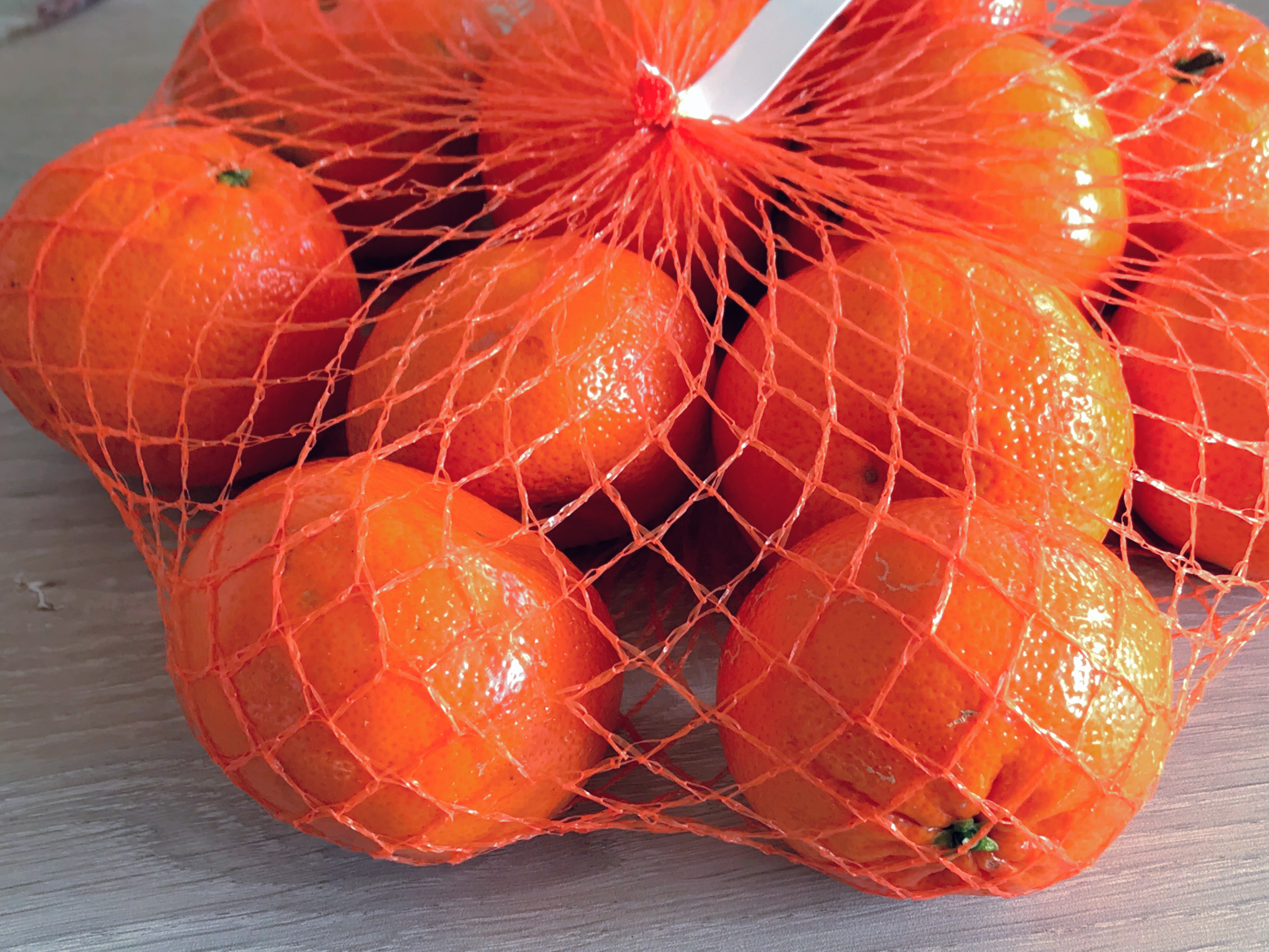 Mandarin oranges in mesh bag